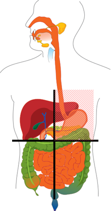 of the abdominal left upper quadrant, with its contents being Stomach, Spleen, Left lobe of liver, Body of pancreas, Left kidney and adrenal gland, Splenic flexure of colon, Parts of transverse and descending colon